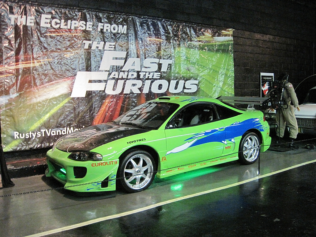 Rusty's TV & Movie Car Museum in Jackson, Tennessee. Fast & Furious